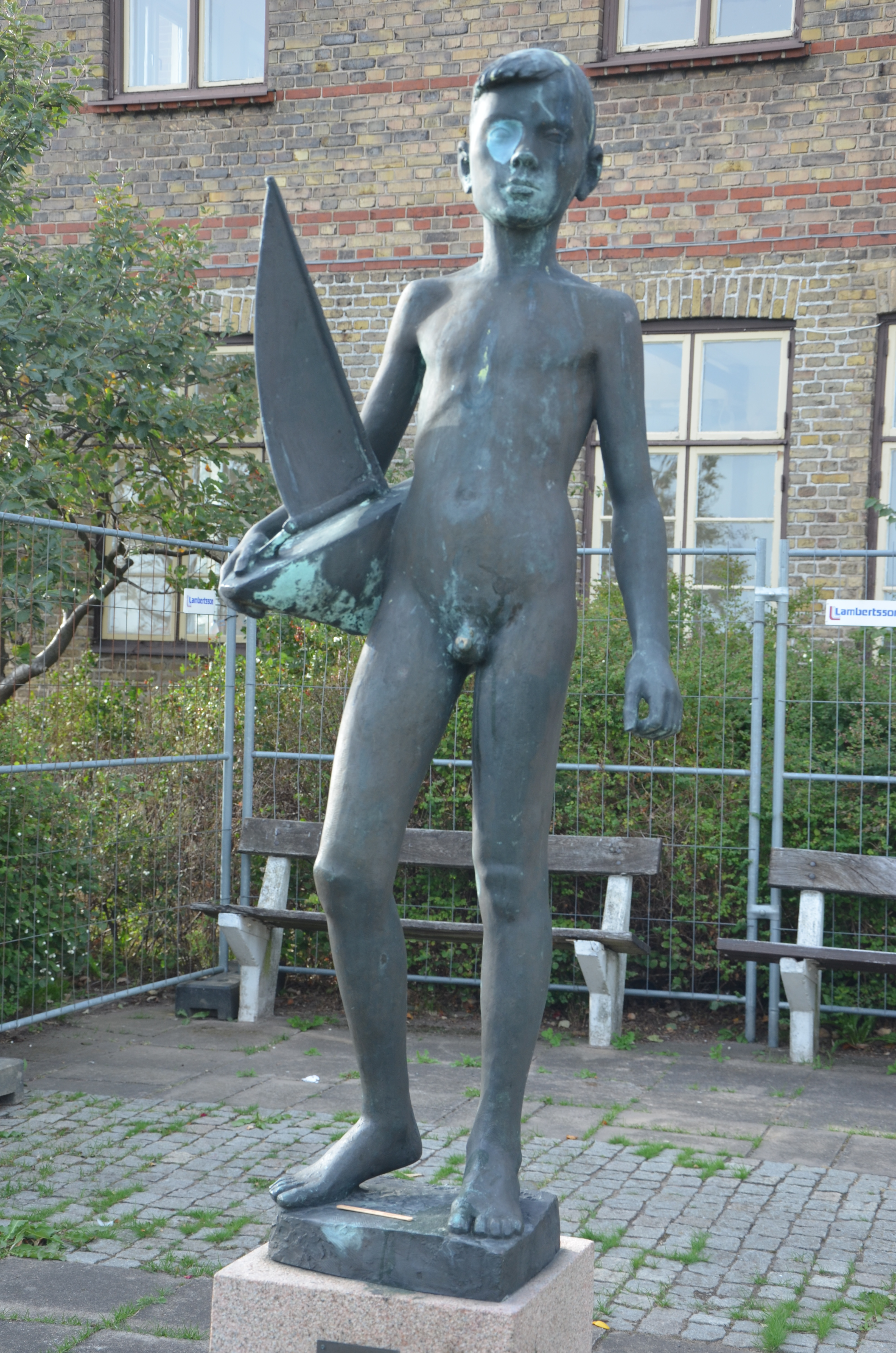 Artur Johanssons Gosse med båt , brons, 1959, Råå södra skola, Helsingborg